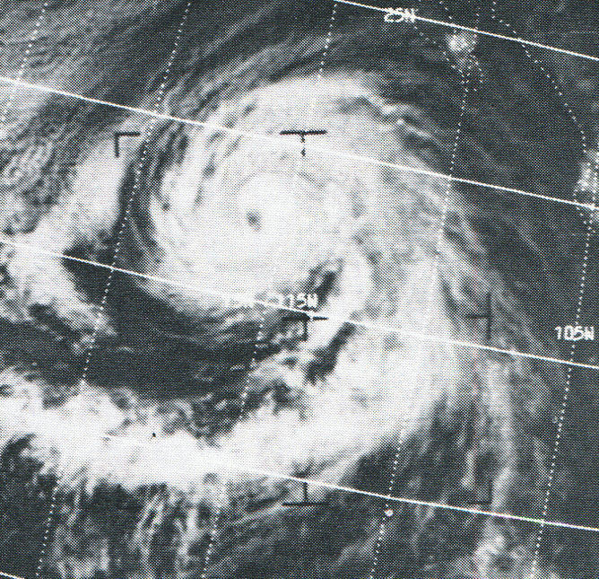 This ESSA 9 weather satellite image of Hurricane Joanne was taken on October 2, 1972 at 2233 UTC